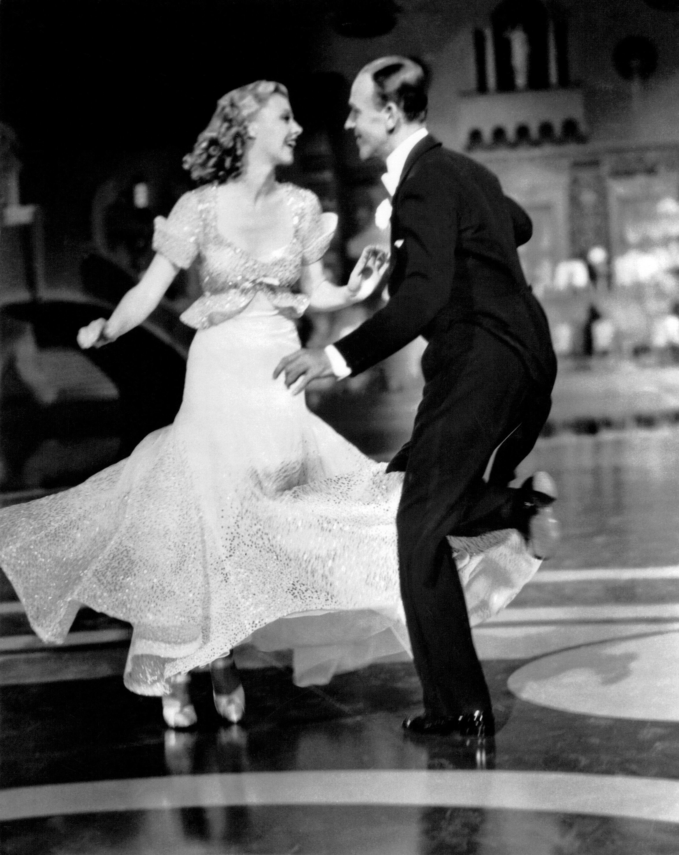 Promotional photo of Ginger Rogers and Fred Astaire in Top Hat